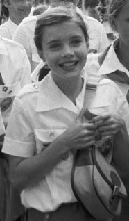 Cropped version of the photo titled “U.S. girl Samantha Smith in Artek”. U.S. girl Samantha Smith visiting the USSR upon the invitation of General Secretary of the Central Committee of CPSU Yuri Andropov in all-Union Artek pioneer camp.